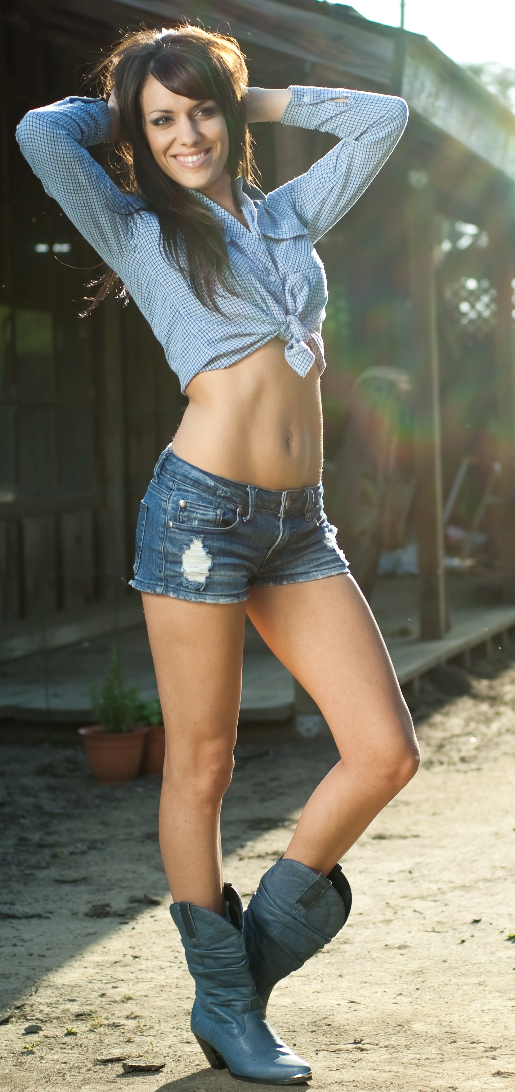 A model dressed as a cowgirl.